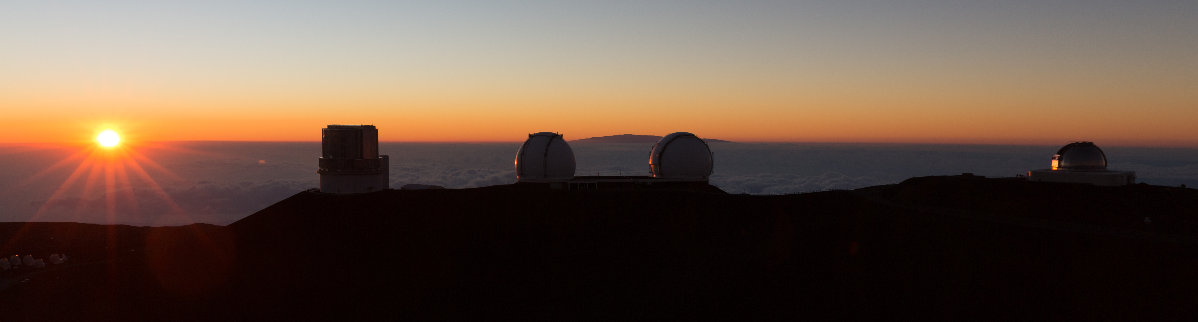 Mauna Kea Observatories